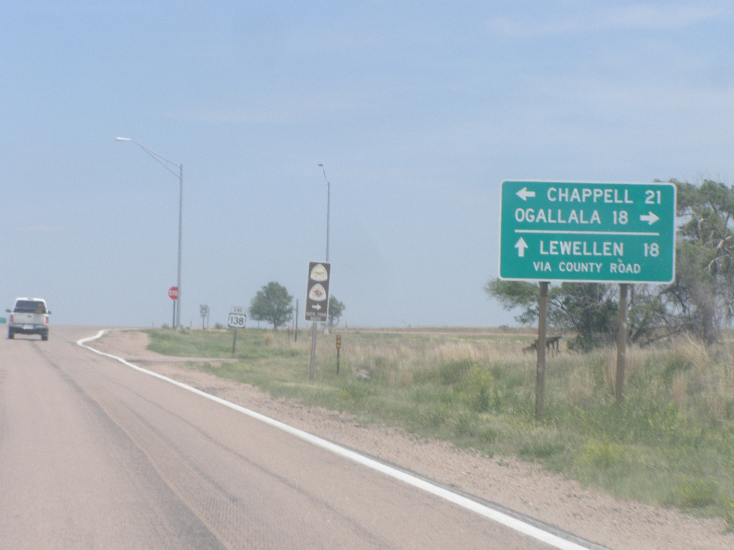 Lewellen, Nebraska along U.S. 26 in western Nebraska.